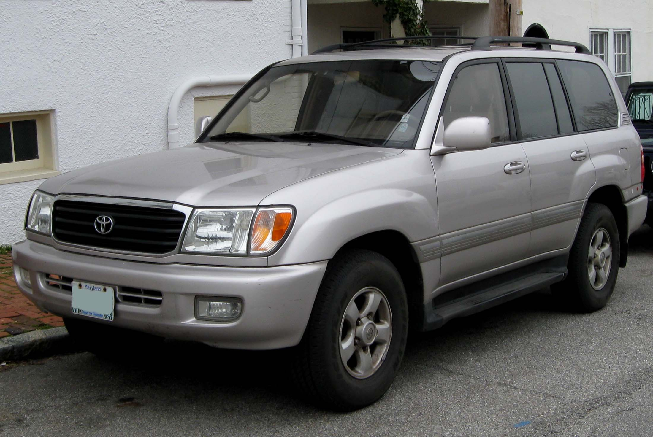 Toyota Land Cruiser photographed in Annapolis, Maryland, USA.